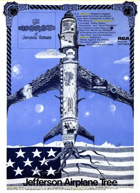 Trade ad for the album The Worst of Jefferson Airplane.